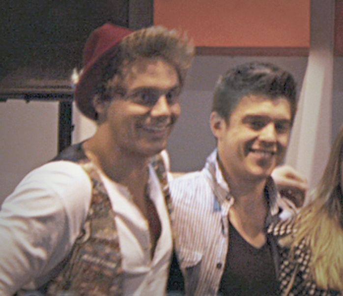 British actors James Atherton and Craig Vye at the Clothes Show Live at NEC Arena, Birmingham, UK